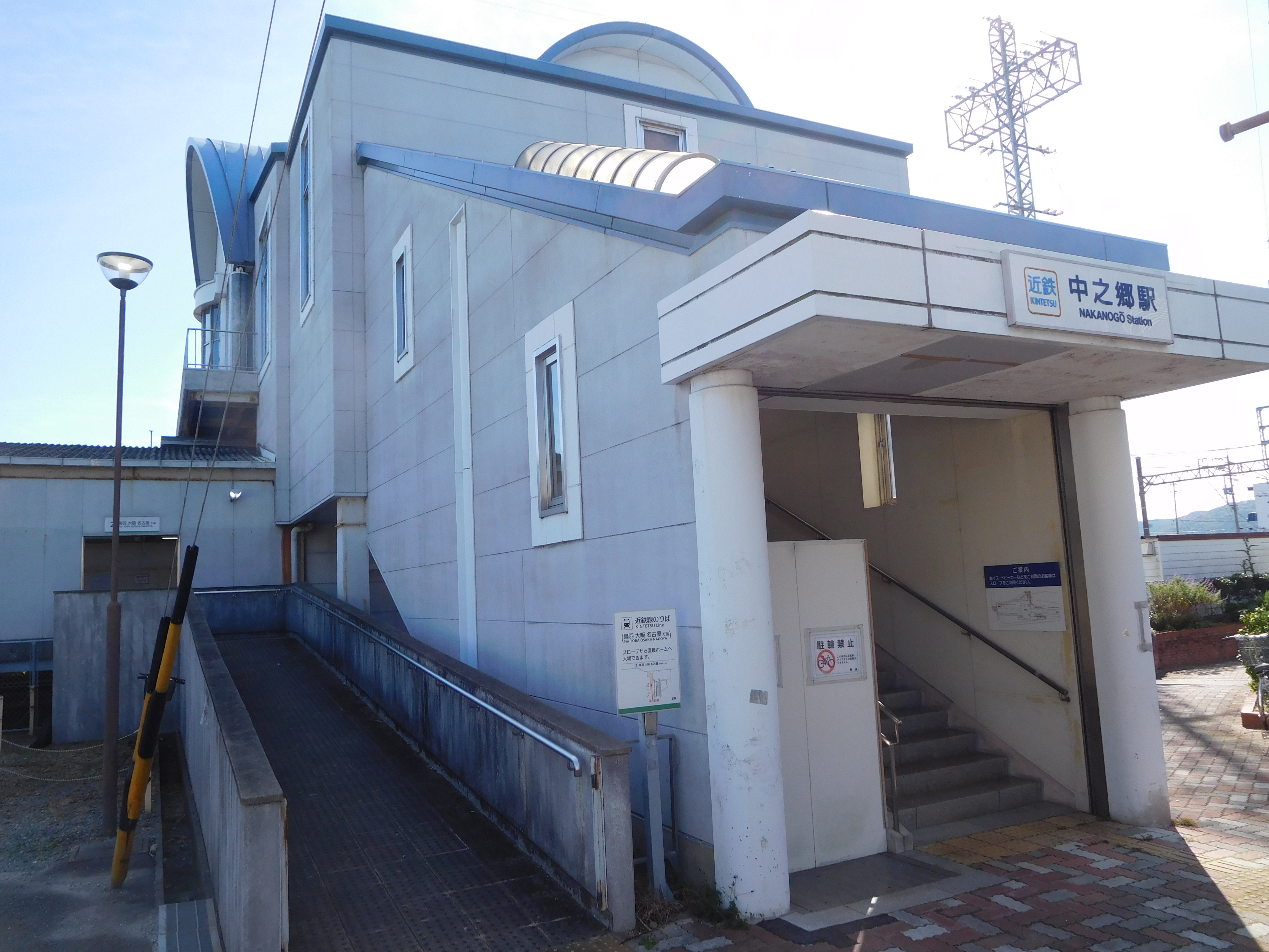 These are west exit of Kintetsu Nakanogo Station in Toba, Mie, Japan. Slope on the left side is for platfrom 2, steps on the right side is for the station building.